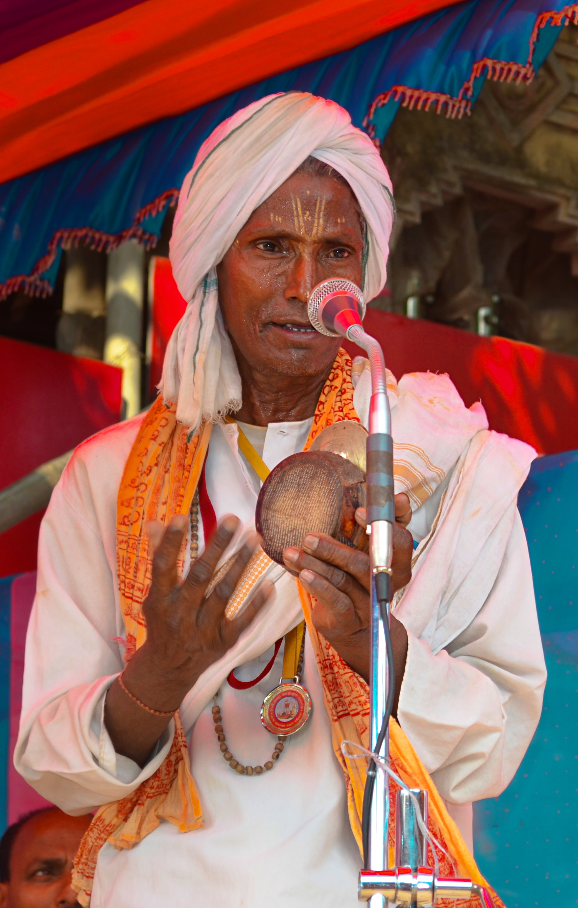 A man plays khanjani, a traditional Odia percussion instrument during the Rukuna Ratha Jatra of Lingaraja, Bhubaneswar.